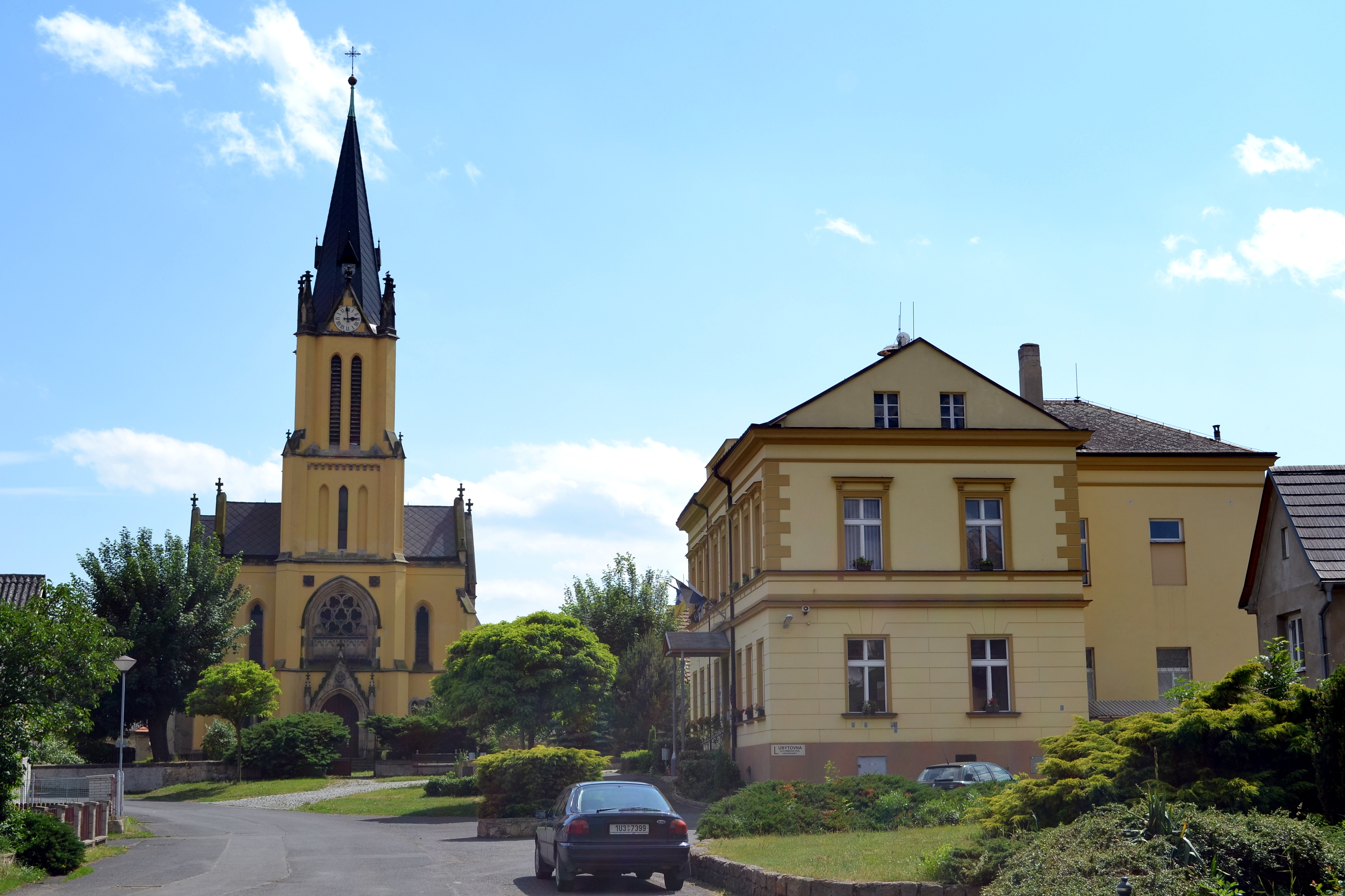 Church of the Nativity of the Virgin Mary and municipal authority building in Libochovany, Ústí nad Labem region, Czech Republic.